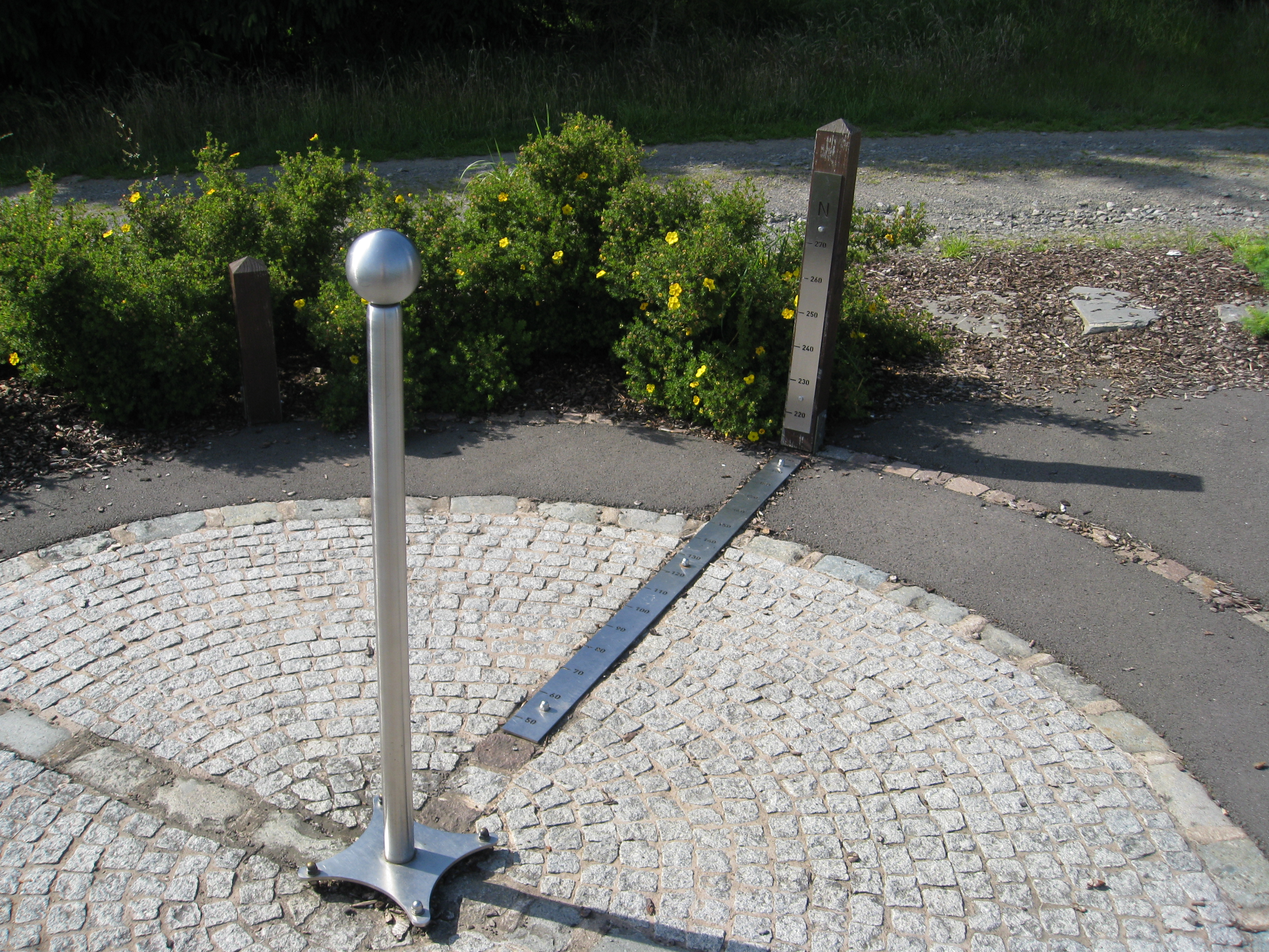 The only integer degree intersection of latitude and longitude in Luxembourg: N 50° E 6°, June 2009